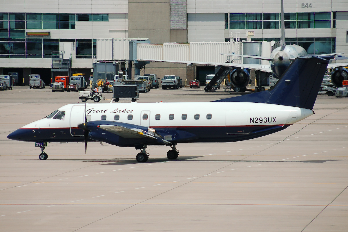 Great Lake Airlines Embraer EMB120 in Denver